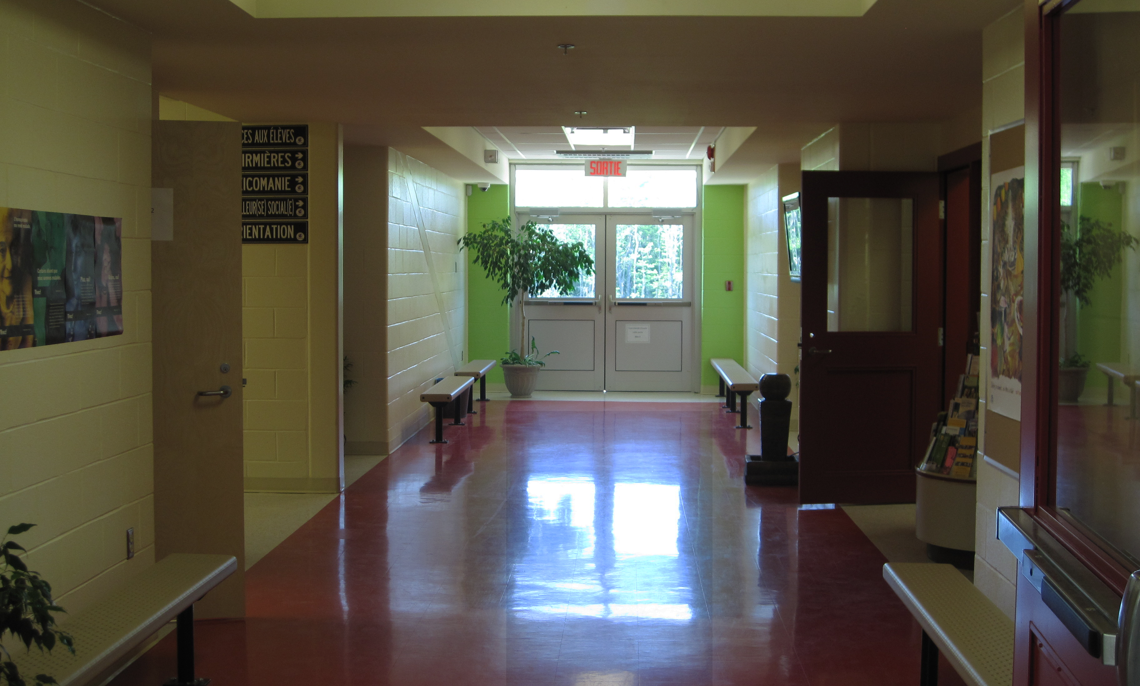 A picture of the newly-constructed area at École L'Odyssée.